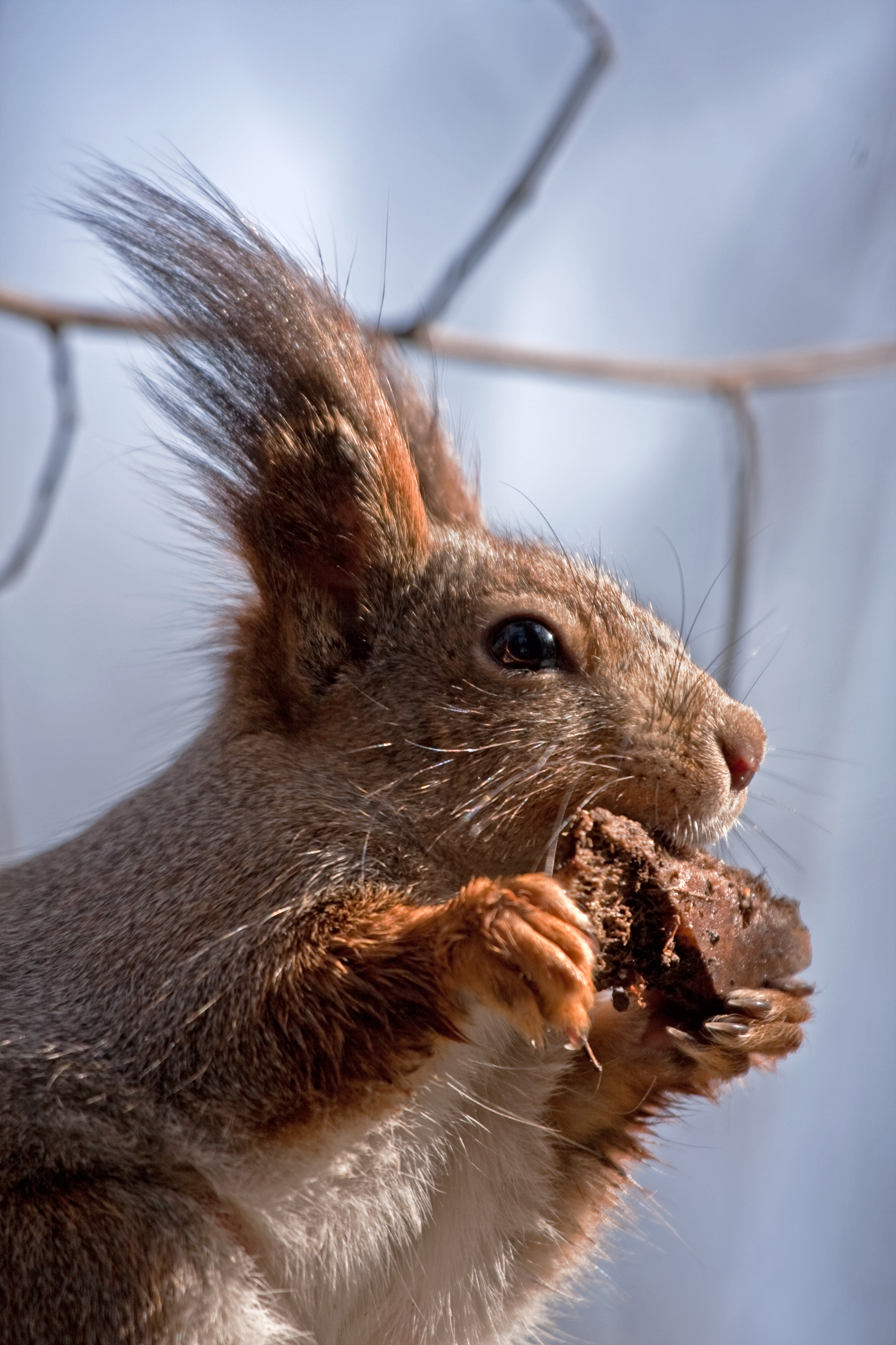 Squirrel chews a bone.Eurasian red squirrel (Sciurus vulgaris).